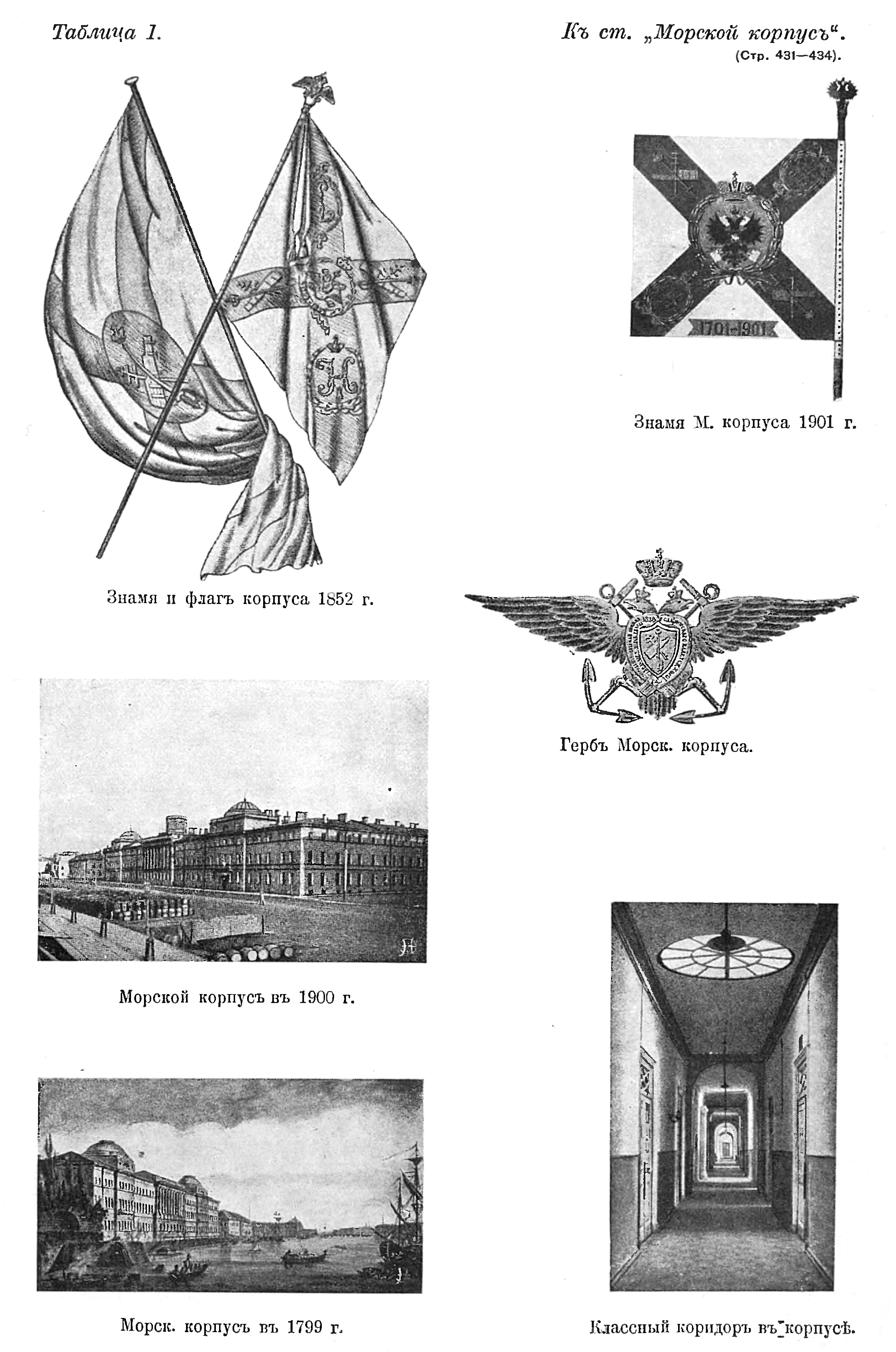 The Sea Cadet Corps (Russian: Морской кадетский корпус), occasionally translated as the Marine Cadet Corps or the Naval Cadet Corps, is an educational establishment for training Naval officers for the Russian Navy in Saint Petersburg.